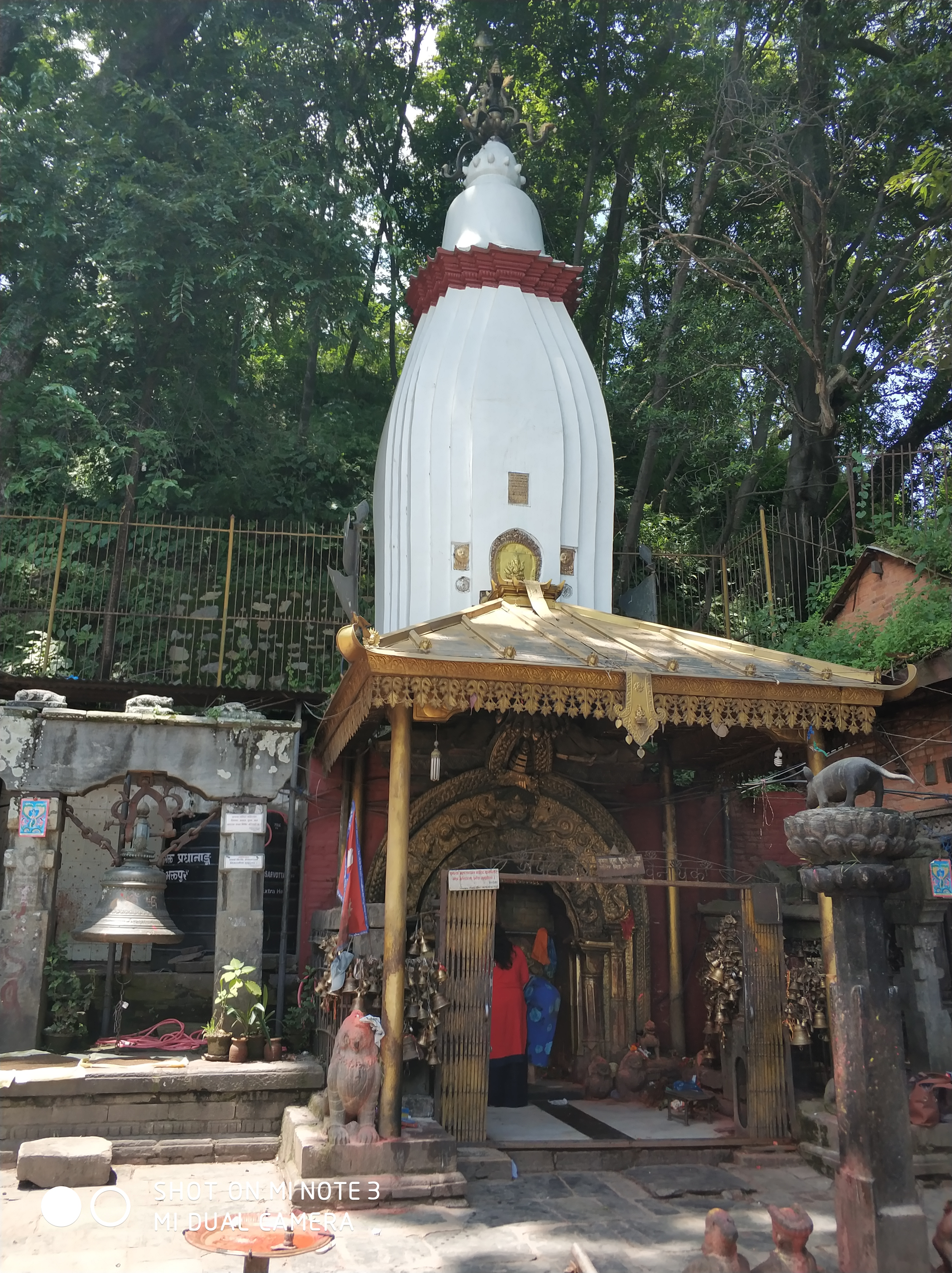 Suryavinayak Temple is a Hindu Temple in Nepal, which is located in Bhaktapur district, Nepal. The temple is dedicated to the Hindu god Ganesh. The temple is an historical and cultural monument and tourist centre also.